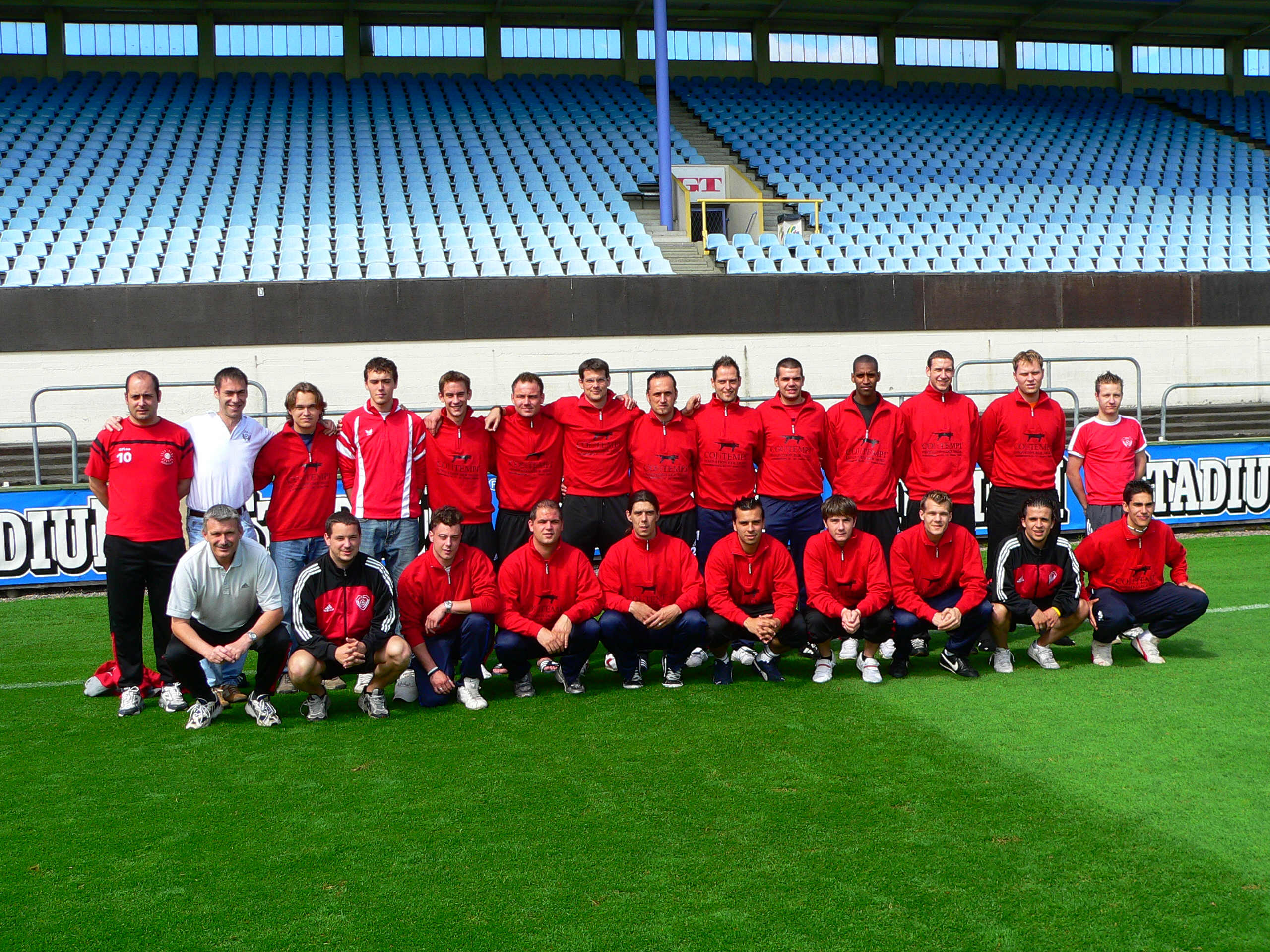 2005/2006 Squad of Victoria Rosport at UI-Cup Game in Göteborg/Sweden